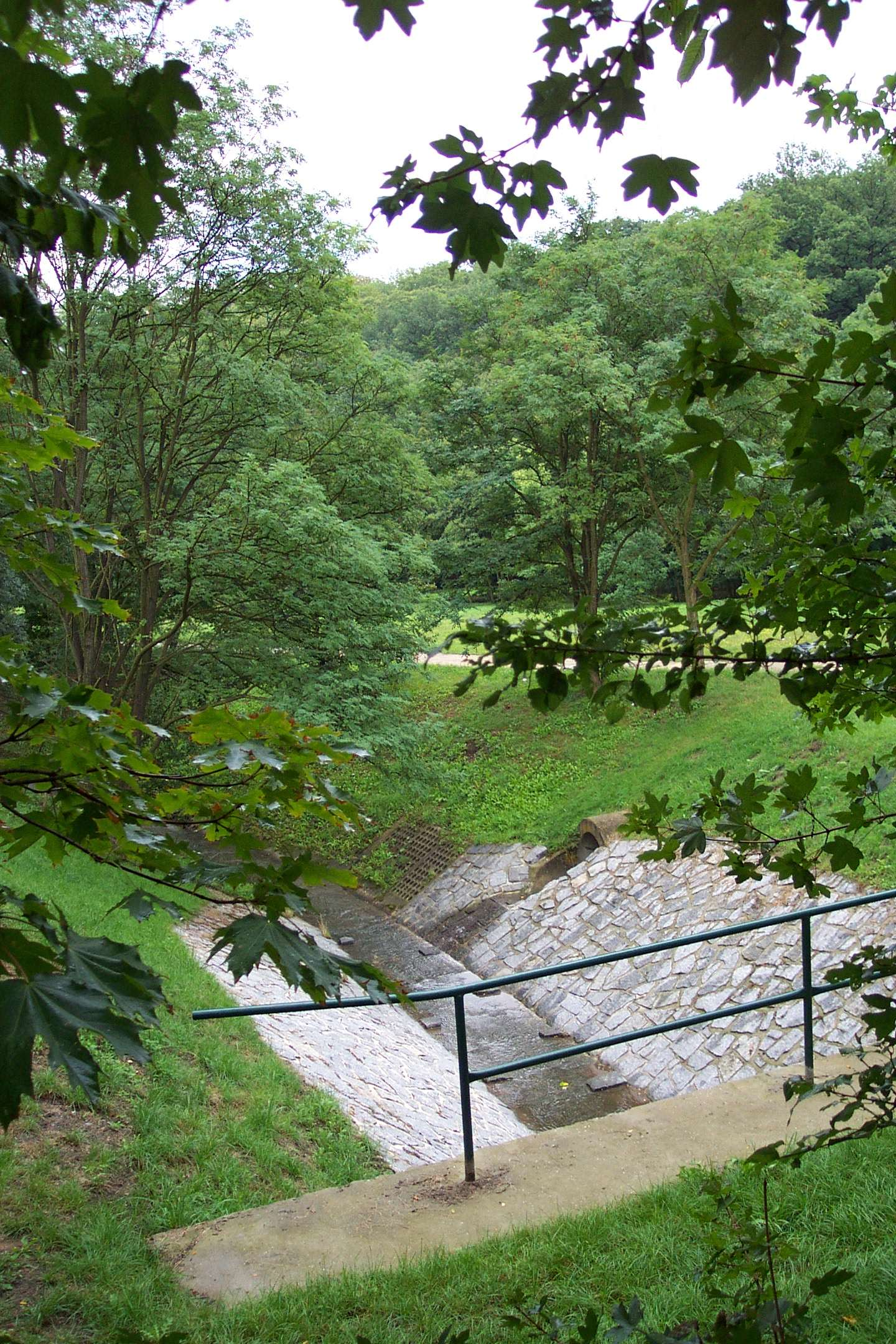 The Cibulka park in western part of Prague, Motolský potok spring